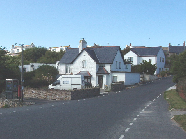 Trenance. This is the B3276 Padstow to Newquay Road, with houses above Mawgan Porth